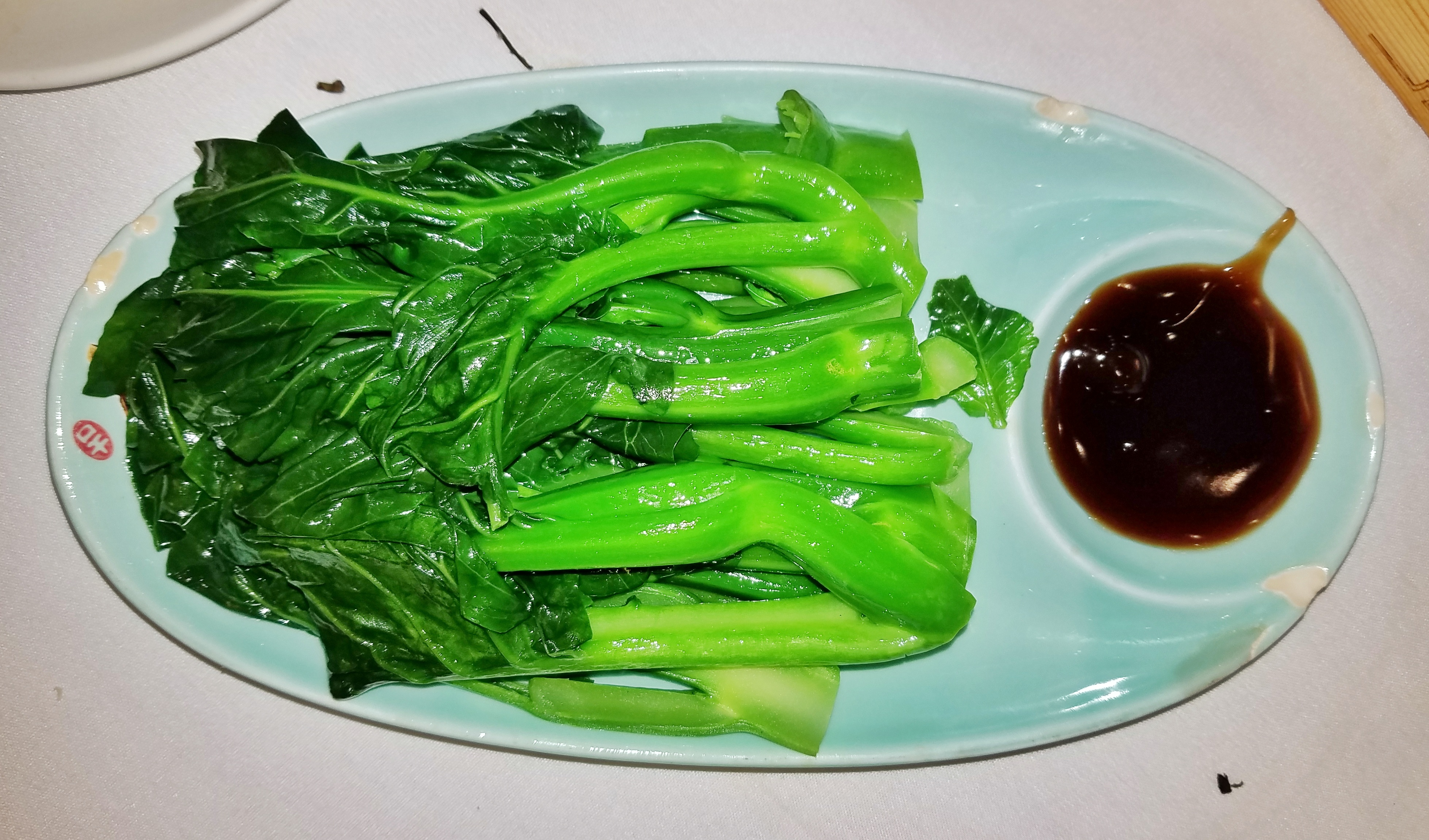 Chinese broccoli - Watertown, MA.